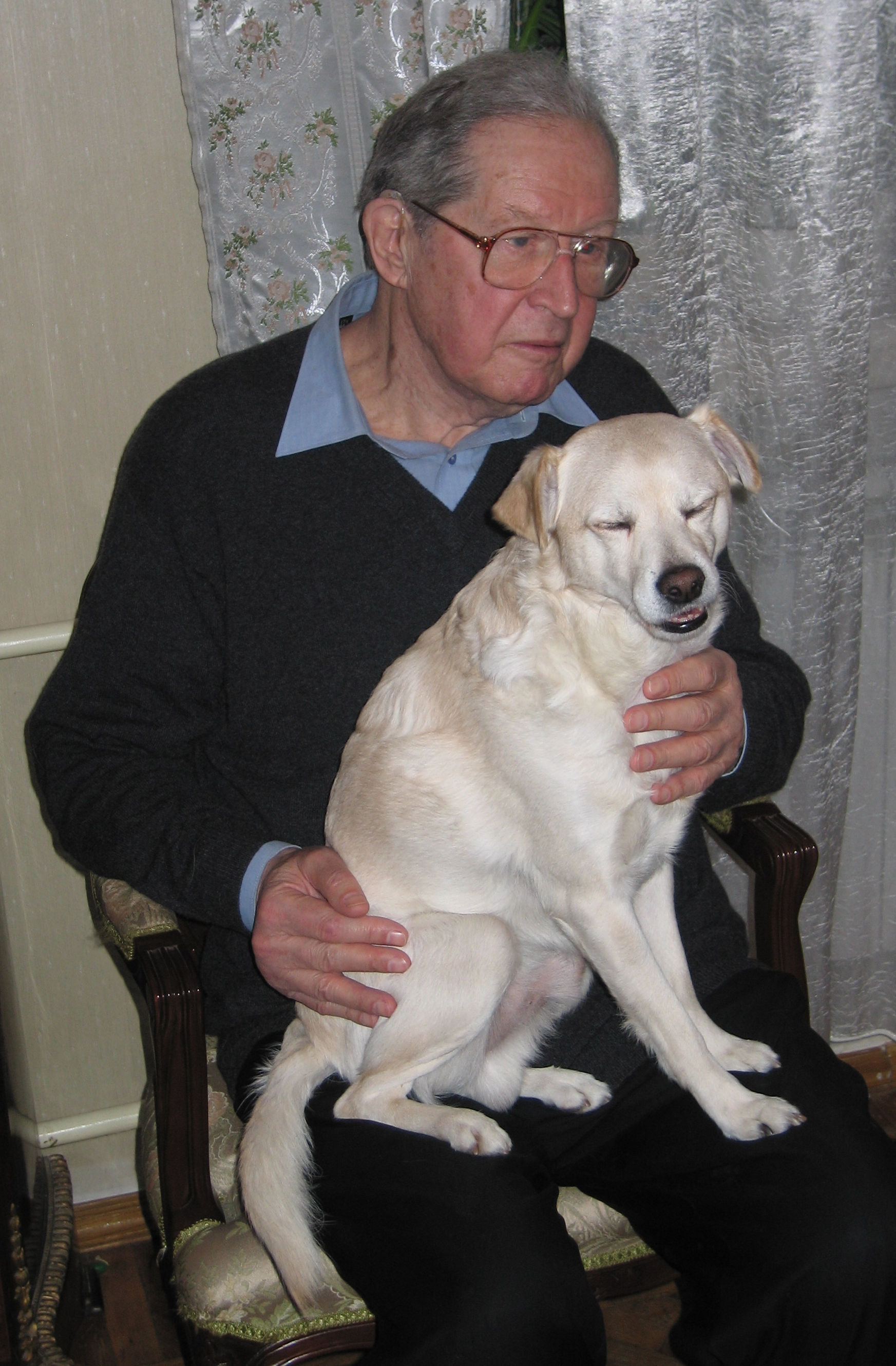 Juri Averbakh at his 85th birthday